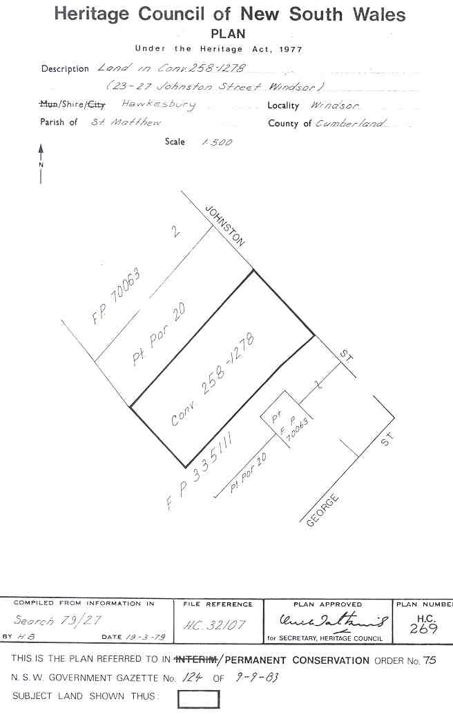 Johnston Street terraces: PCO Plan Number 075